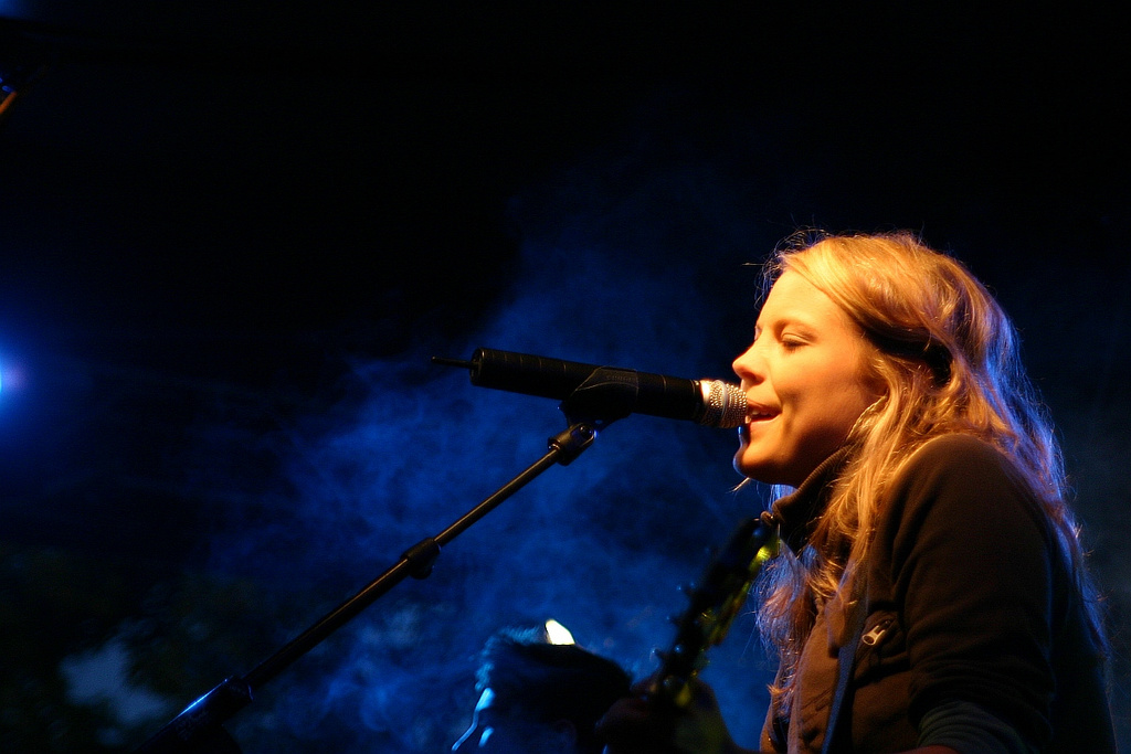 Lunik, a trip-hop band from Switzerland, Concert at Maschseefest (Hannover)